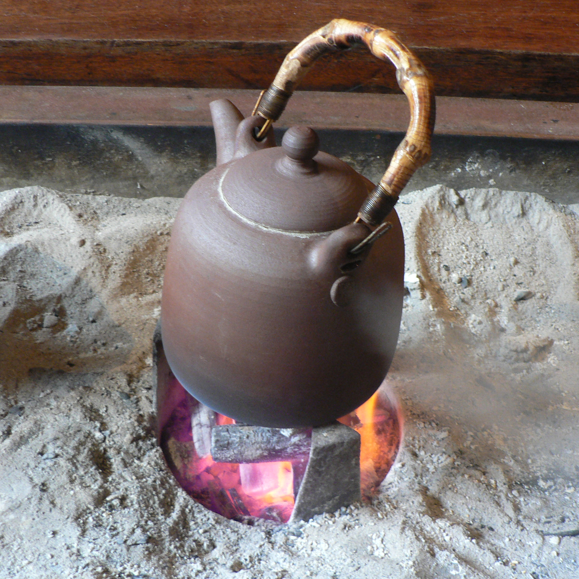 A tea kettle in a tea-house in Jiufeng, Taiwan